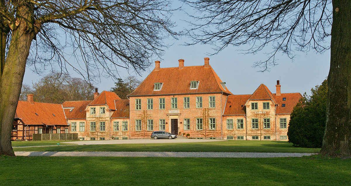 Gammel Køgegård - Estate and Mansion near Køge in Denmark, dating back to the Middle Ages